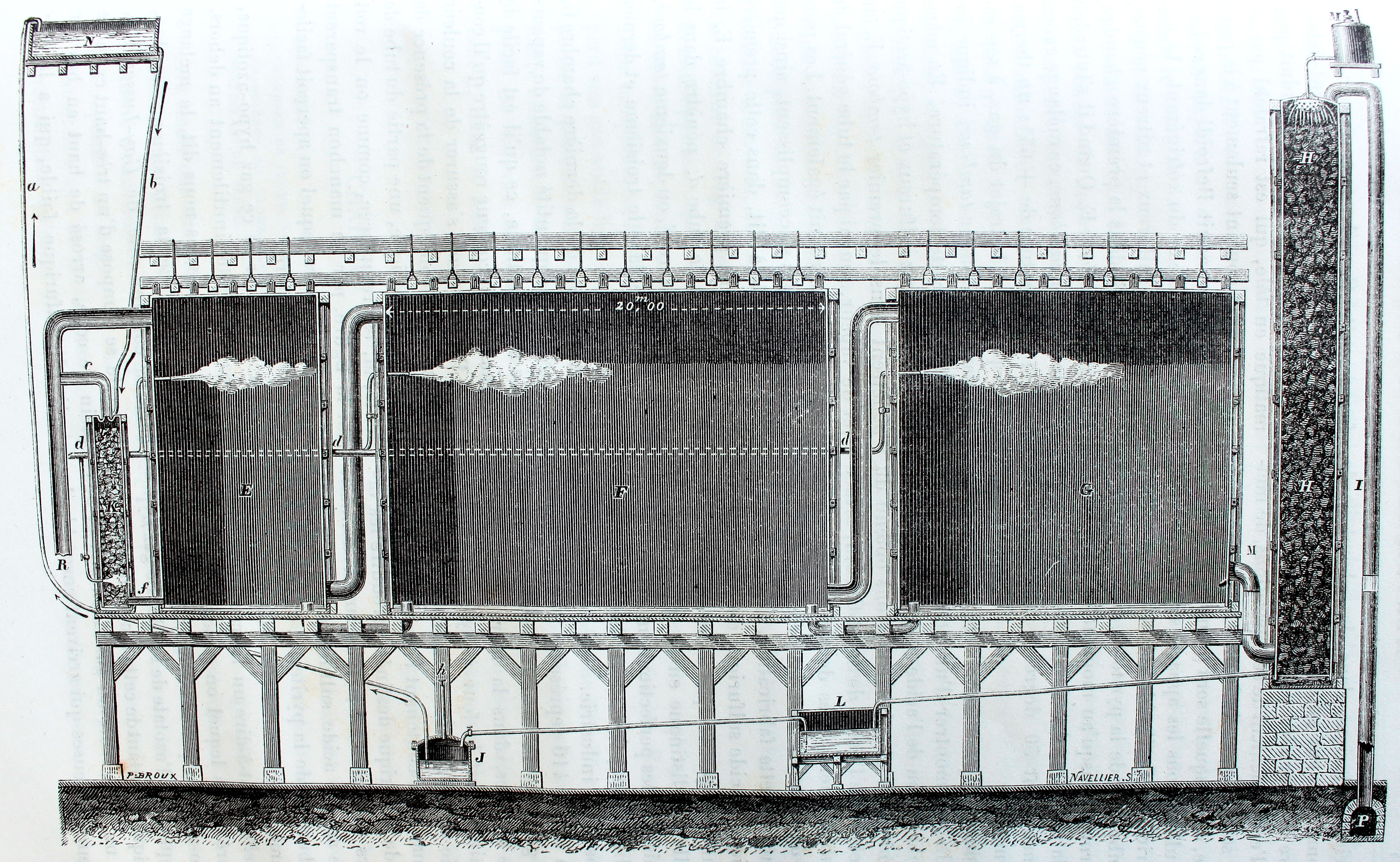 "Apparatus for making sulfuric acid in lead compartments"